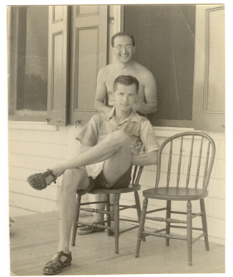 Salvador Luria with Max Delbruck at Cold Spring Harbor]. Photographic Print.